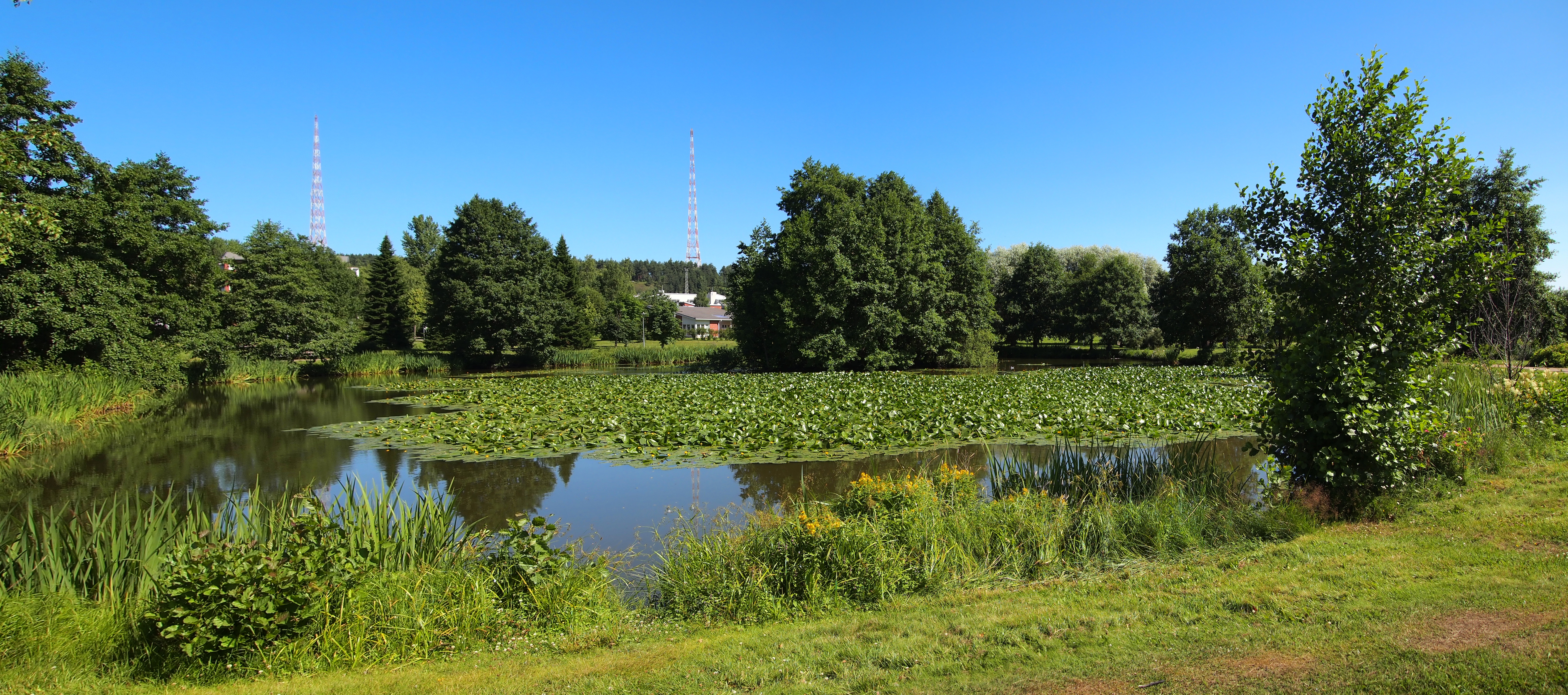 Pond in Laune Central Park.